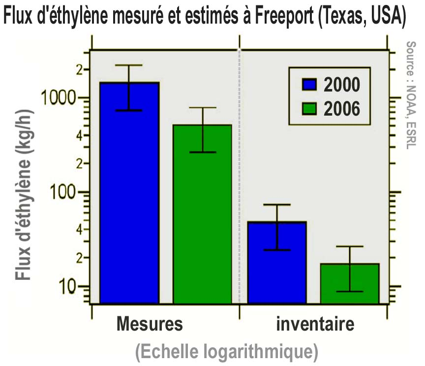 Flux of ethene (true and from state-inventorie (industrial origine) in the atmosphere of Freeport (TEXAS, USA) Source NOAA ERSL (Regional Air Quality Field Studie) (consultée 2009 12 23)